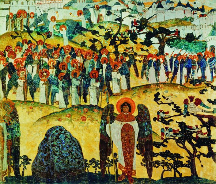 Nicholas Roerich "Treasure of angels"